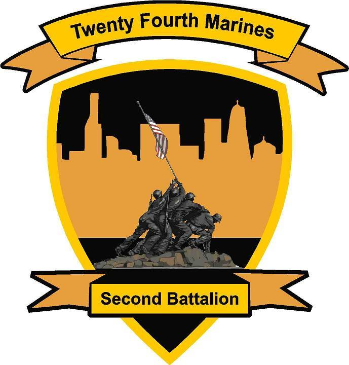 Insignia for 2D Bn 24th Reg